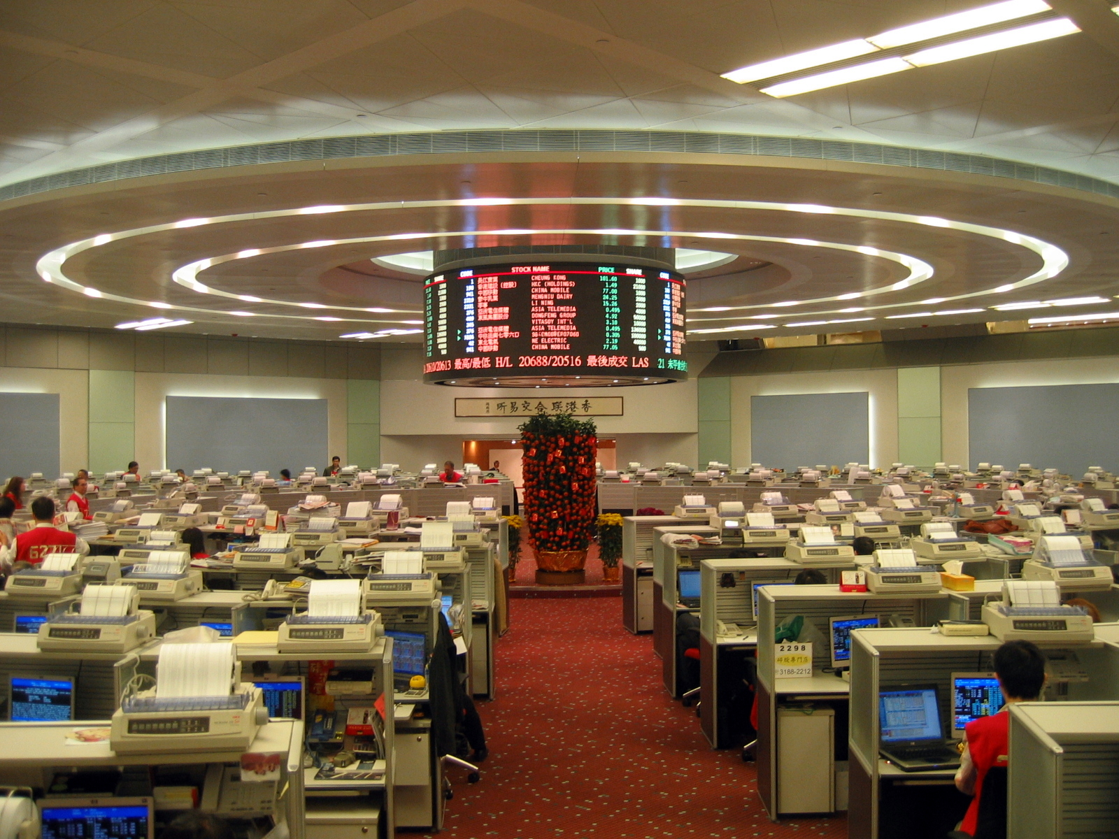 The Stock Exchange of Hong Kong Limited, Trade Lobby